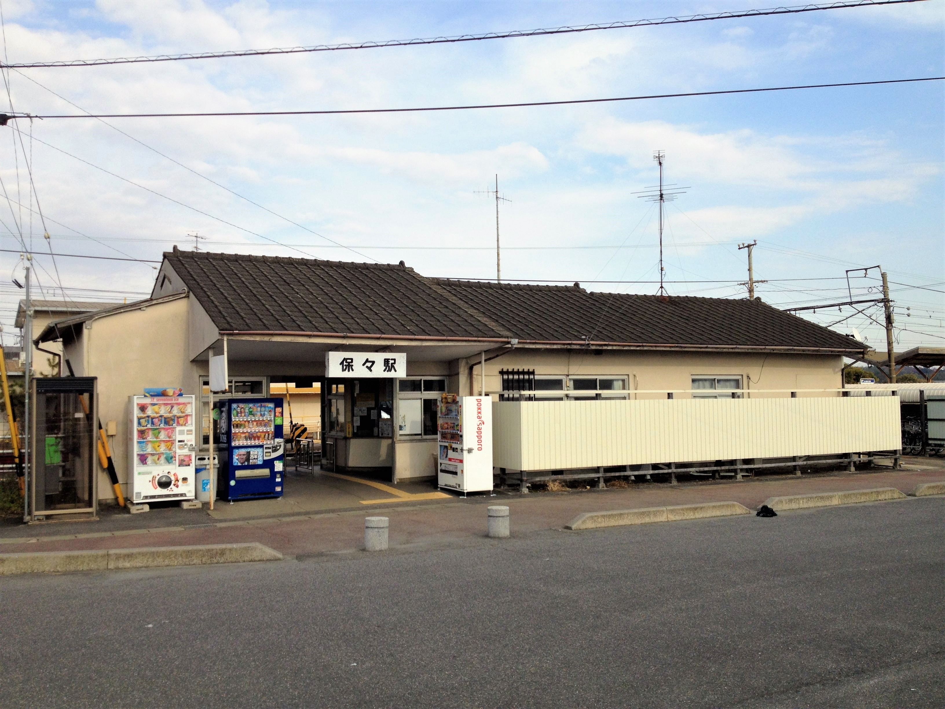 Hobo Station in Yokkaichi, Mie Prefecture, Japan